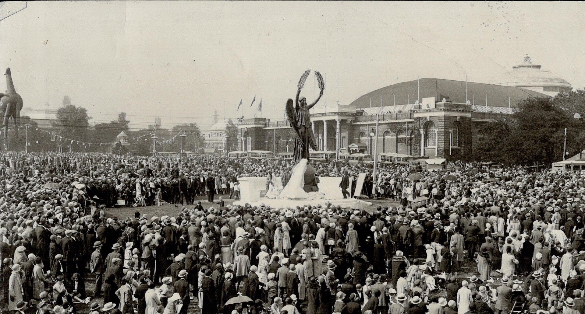 View of large crowd around statue. Several large buildings in background